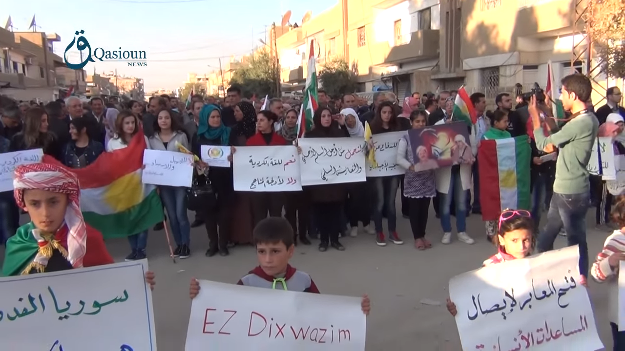 Supporters of the Kurdish National Council demonstrate in the city of Qamishli, northeastern Syria.